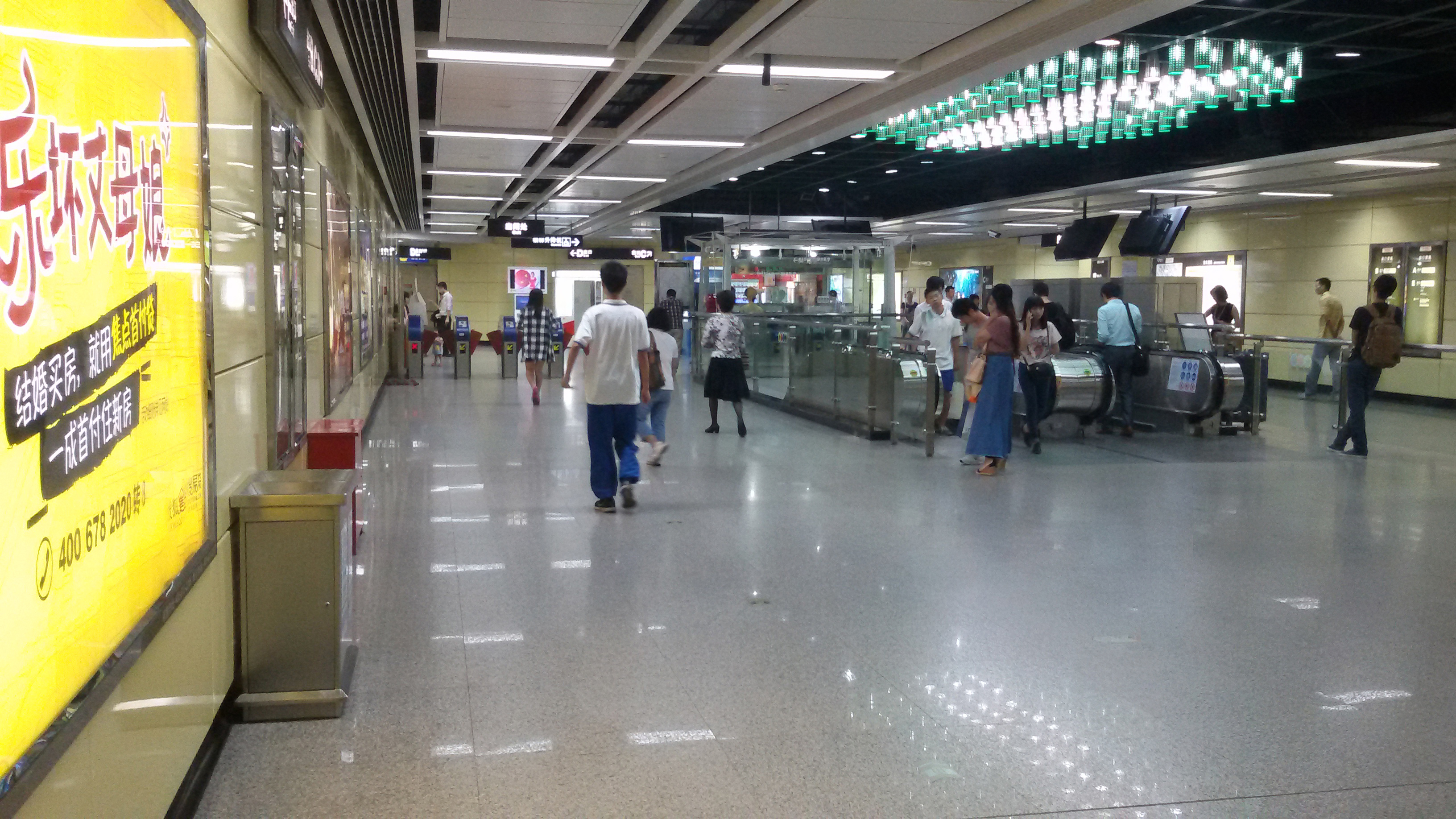 Station Concourse for South China Normal University Station in Guangzhou Metro